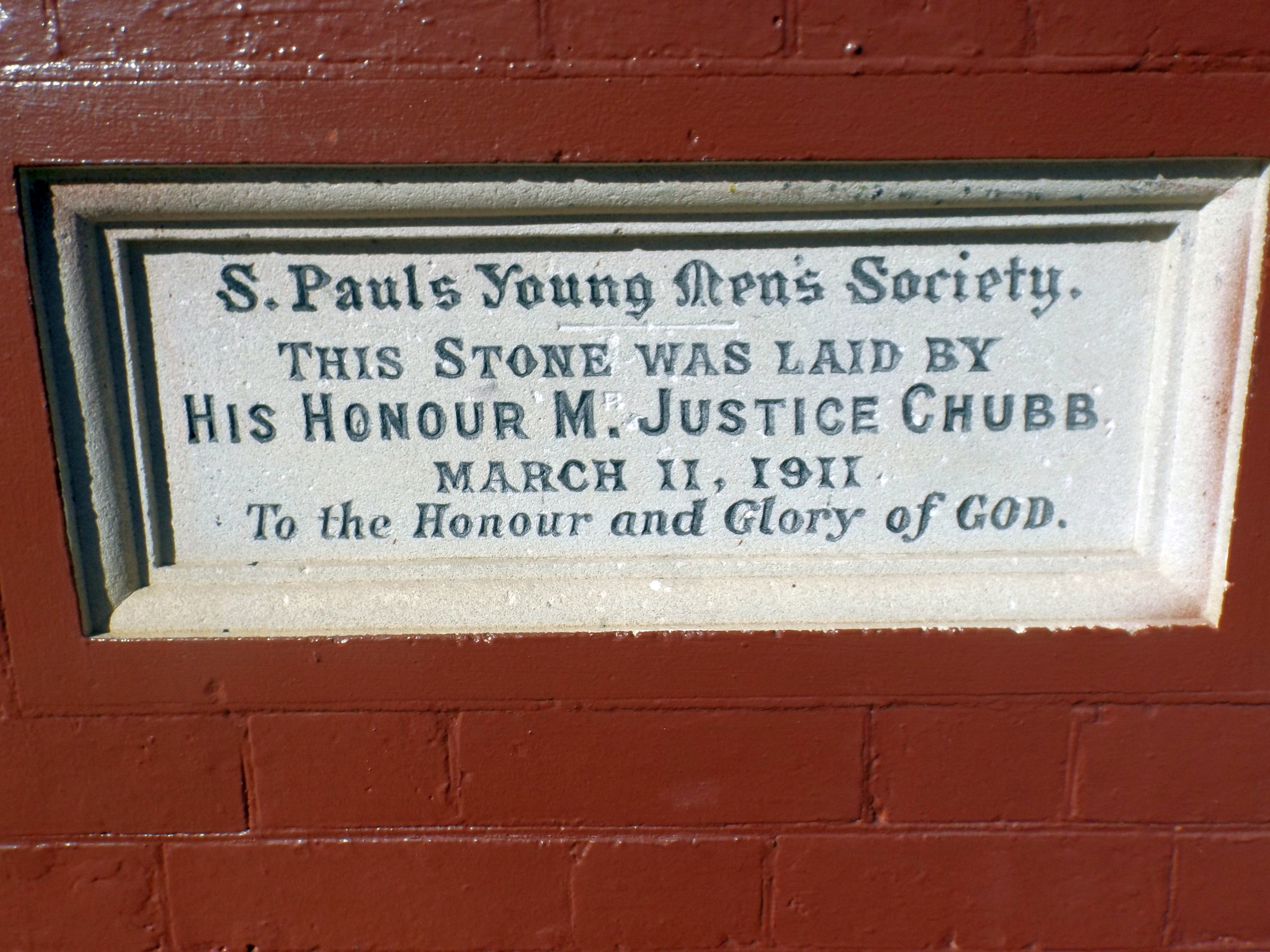 Photo of a plaque for the St Paul's Young Men's Club at Ipswich, Queensland, Australia.